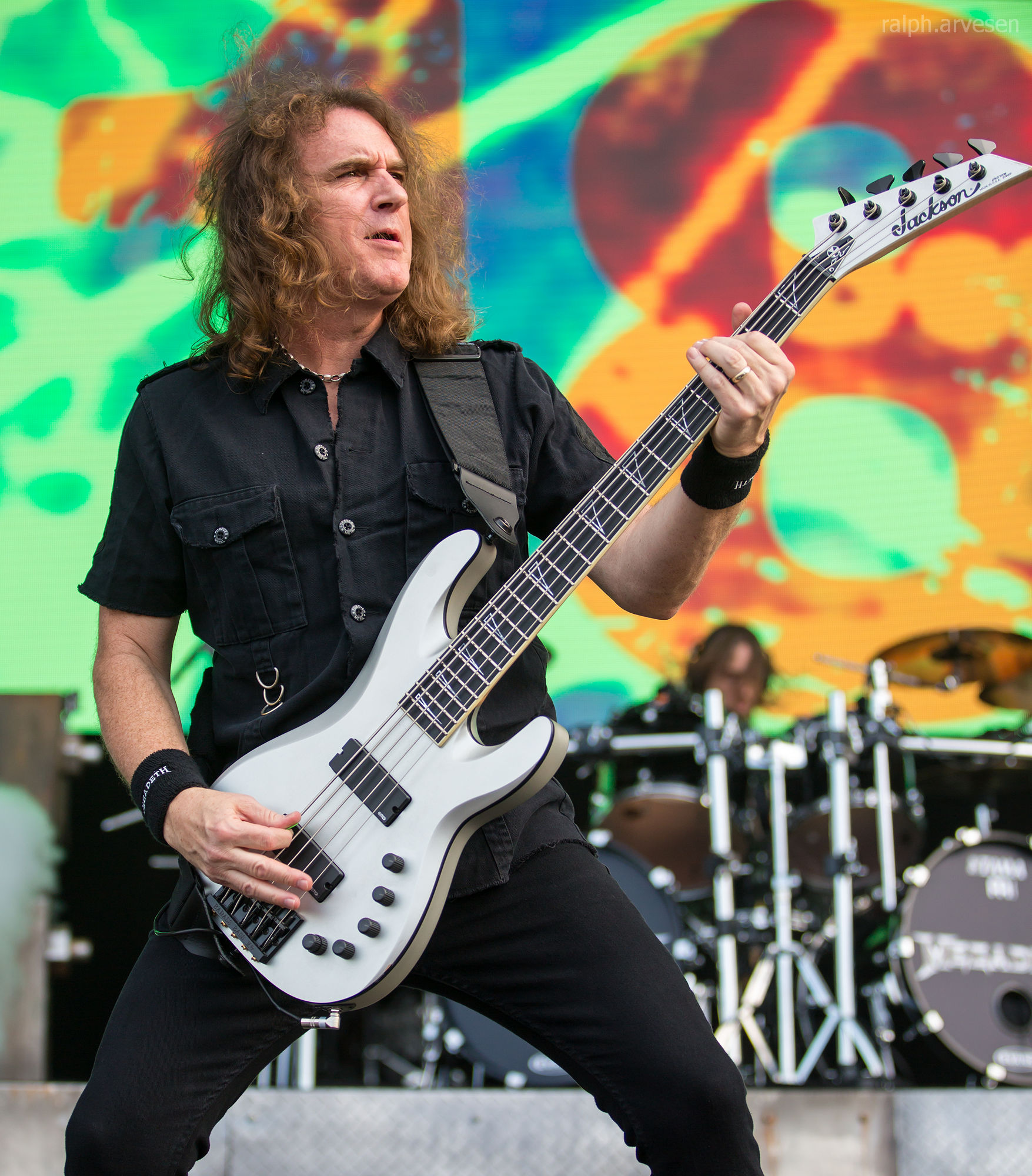 Megadeth performing during the River City Rockfest at the AT&T Center in San Antonio, Texas on May 29, 2016.